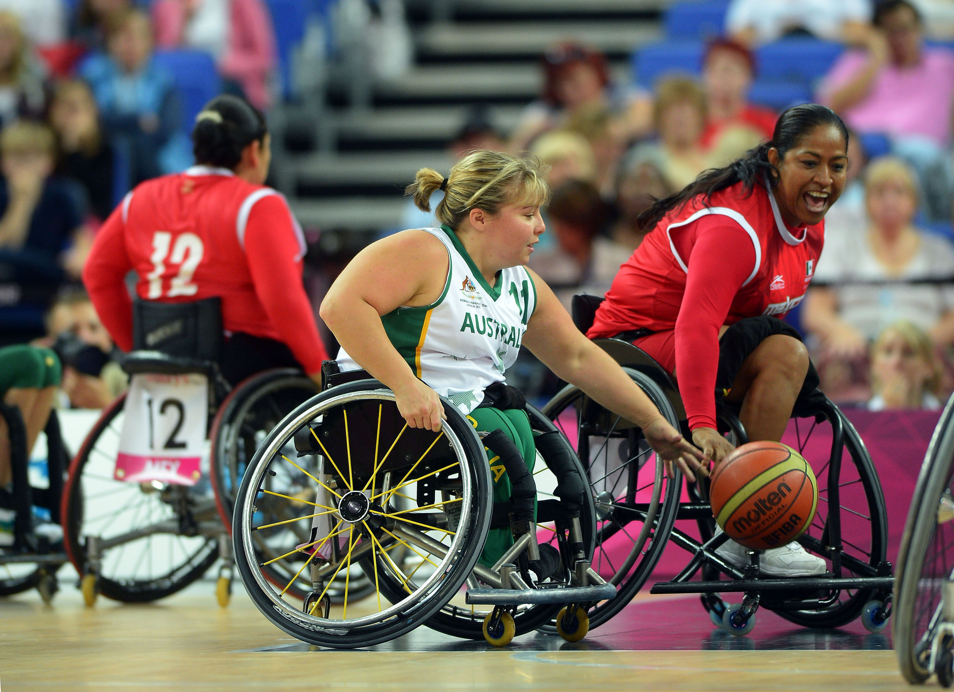 Photograph of Australian Paralympic team member Kylie Gauci at the 2012 Summer Paralympic Games in London